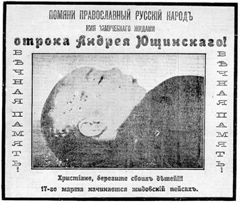 During the Beilis trial, these anti-Semitic fliers were distributed in Kiev warning Christian parents to watch over their children during the Jewish Passover.